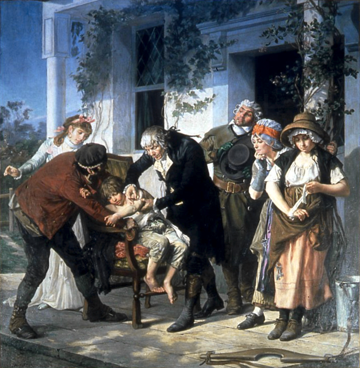 Edward Jenner vaccinating James Phipps, a boy of eight, on May 14, 1796.